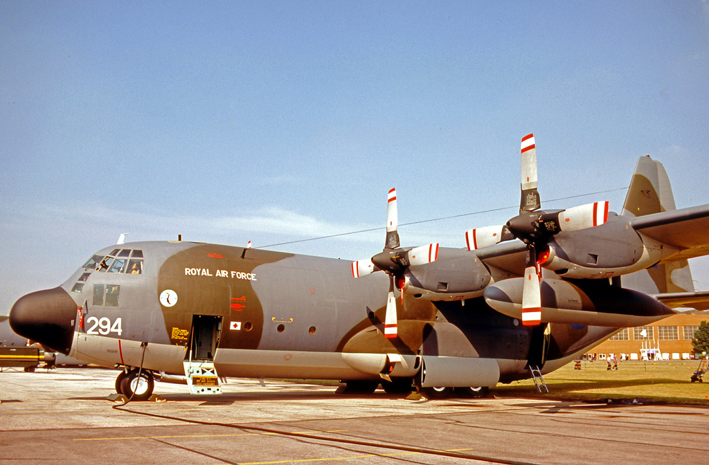 Lockheed C-130K Hercules C.1 XV294 of 47 Squadron RAF at RAF Finningley in 1977